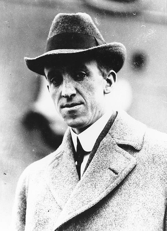 Photo #: NH 77555 Eugene B. Ely On board USS Roe (Destroyer # 24) on 14 November 1910, shortly after his flight off the deck of USS Birmingham (Scout Cruiser # 2). This was the first airplane takeoff from a warship. Photograph from the Eugene B. Ely scrapbooks. U.S. Naval Historical Center Photograph.